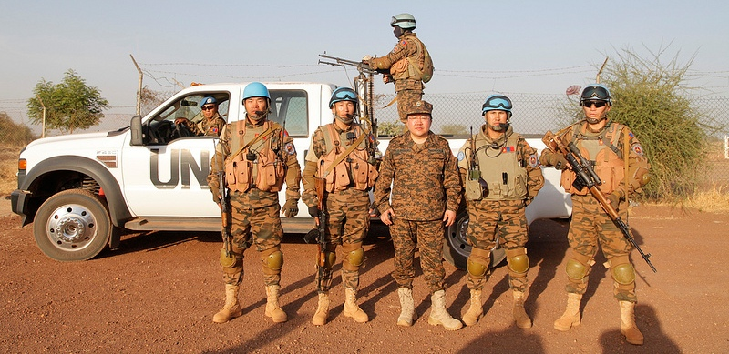 Tsakhiagiin Elbegdorj in Sudan